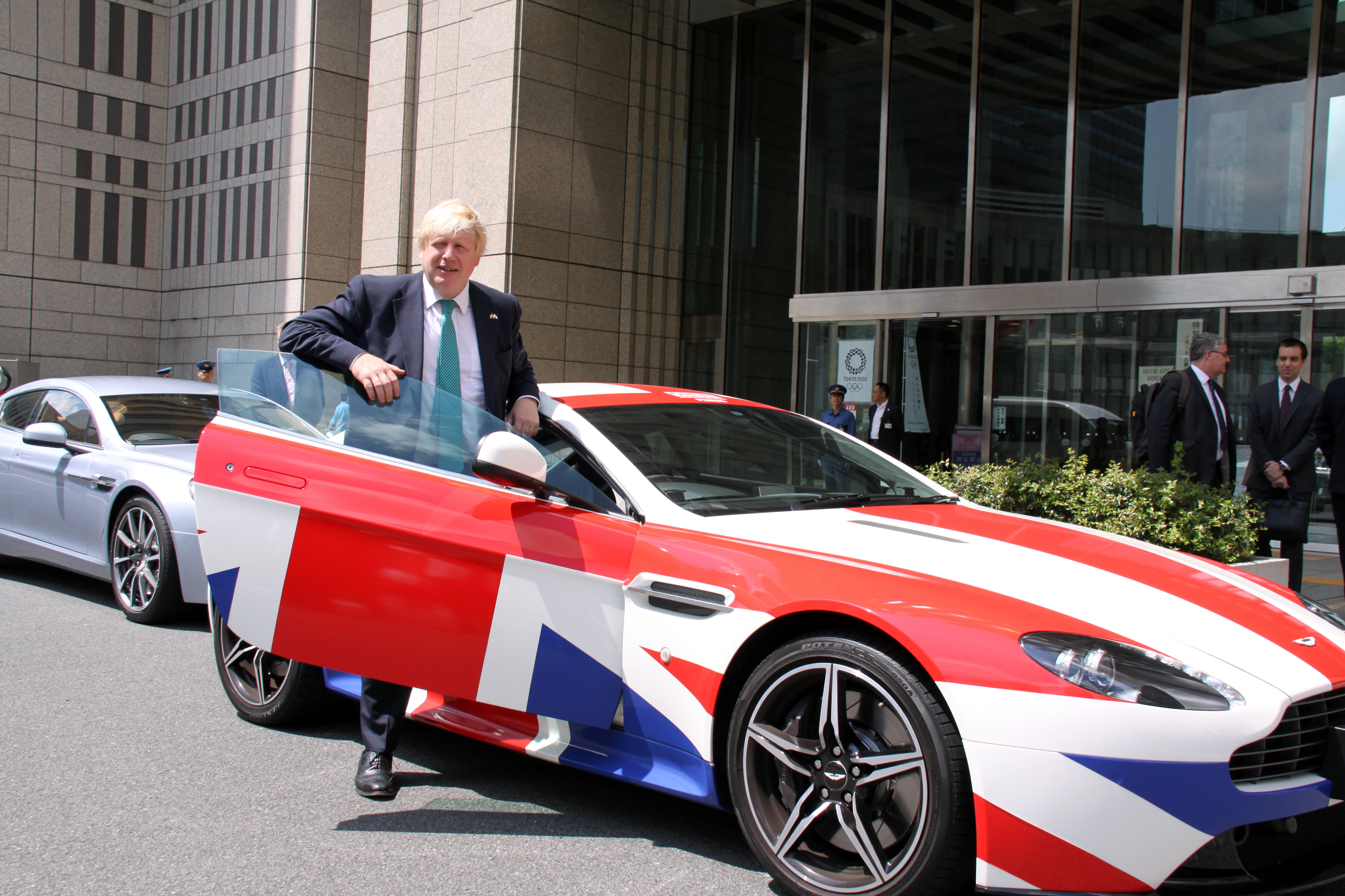 Foreign Secretary arrives at Tokyo Metropolitan Government to call on Governor Koike, and photographed here with a GREAT branded Aston Martin V8 Vantage. (c)British Embassy Tokyo